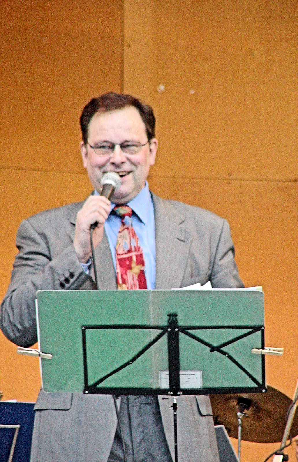 Tapani Kansa, a Finnish singer